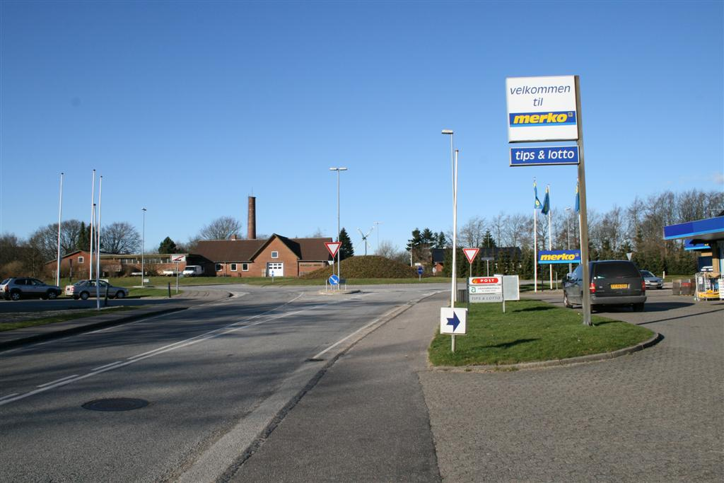 Roundabout Skarild 2008